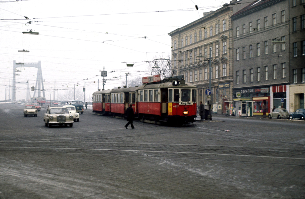 Tramway on the Mexikoplatz in Vienna, ca. 1965, in the background the old Reichsbrücke can be seen